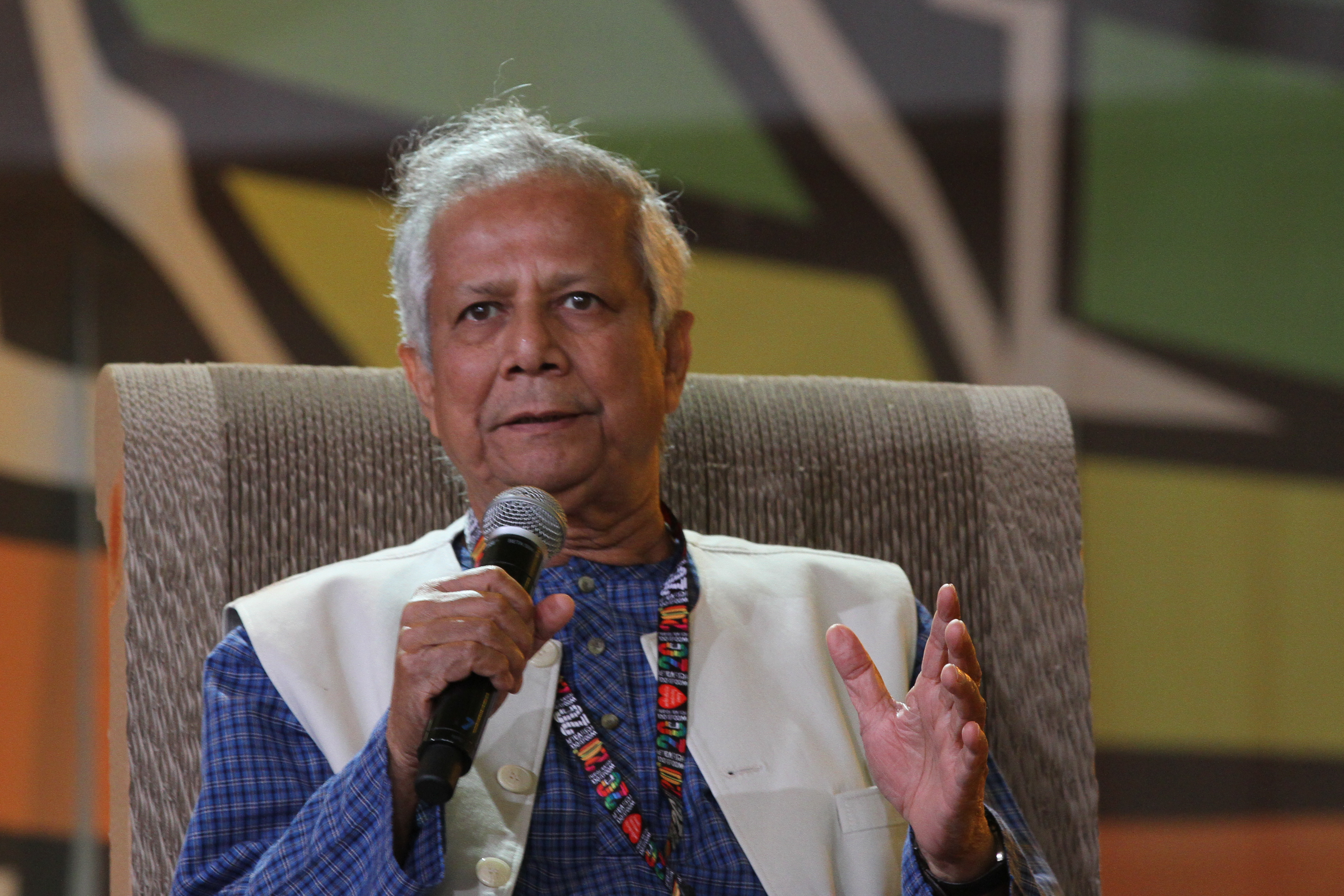 Przystanek Woodstock 2014.